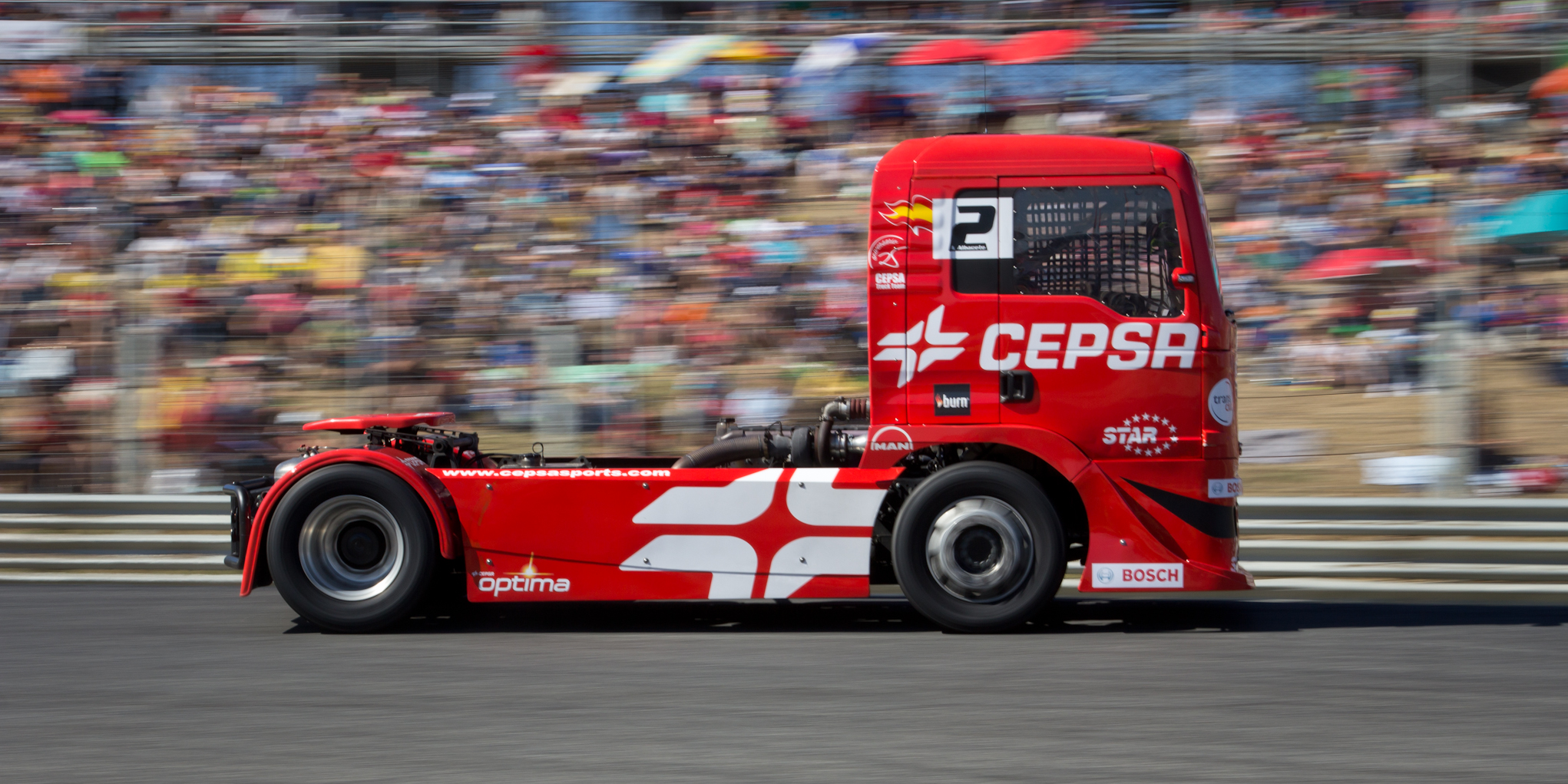 Truck pilot Antonio Albacete at the Spain Truck GP 2013.